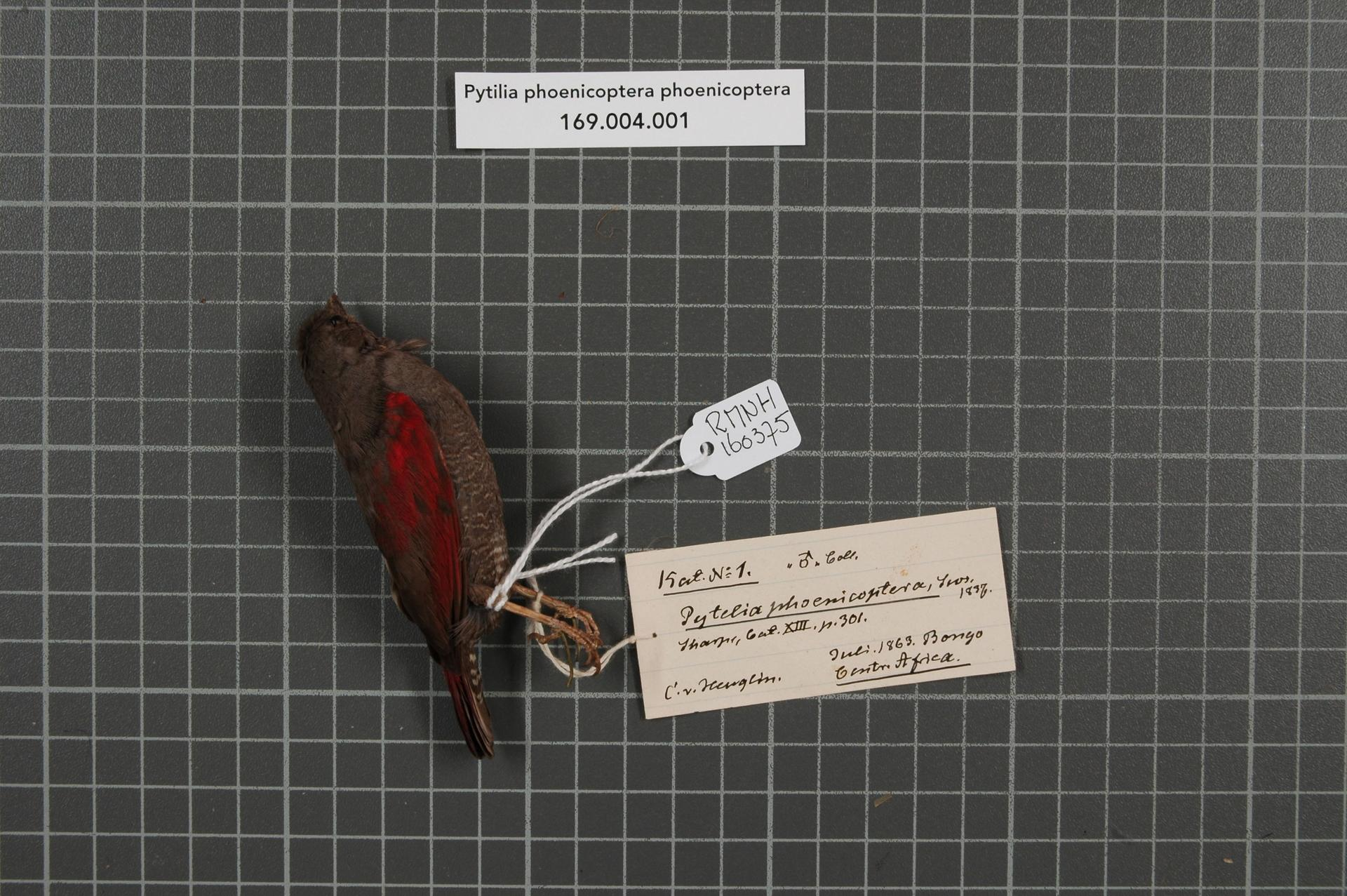 Pytilia phoenicoptera phoenicoptera Swainson, 1837